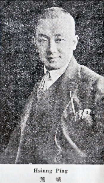 Xiong Bin (Hsiung Pin) (1894-1964)